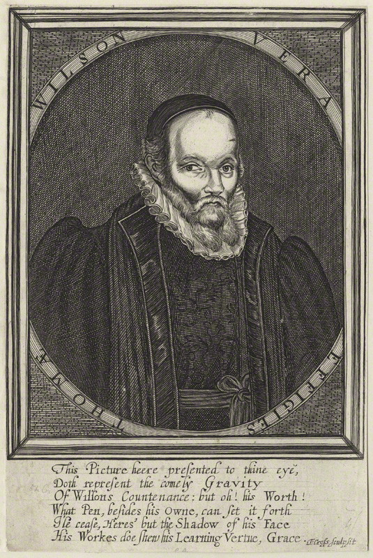 Portrait of Thomas Wilson (1563–1622), English Anglican priest, compiler of the Christian Dictionarie.